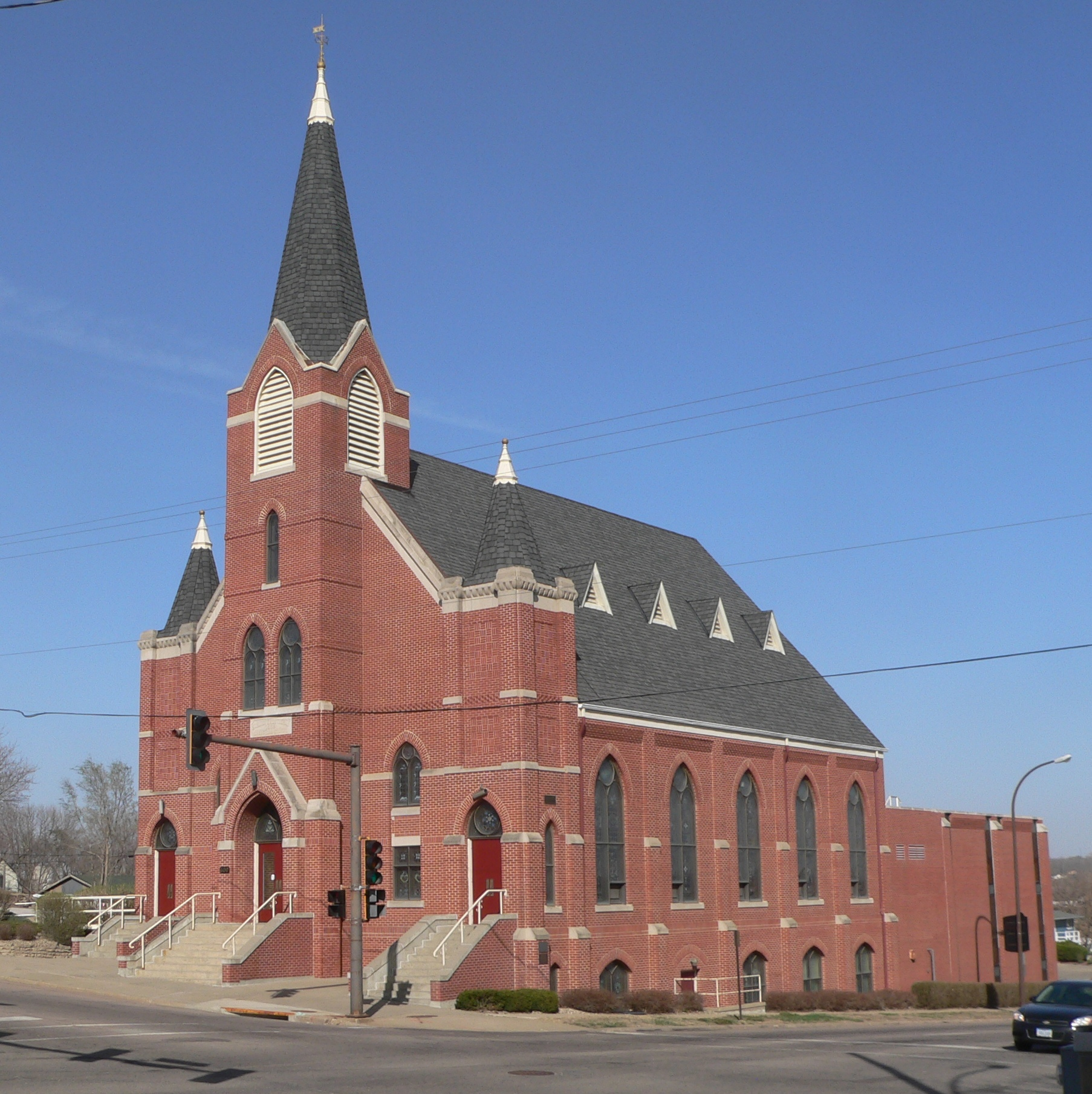 Augustana Church, located at 600 Court Street in Sioux City, Iowa; seen from the southwest.